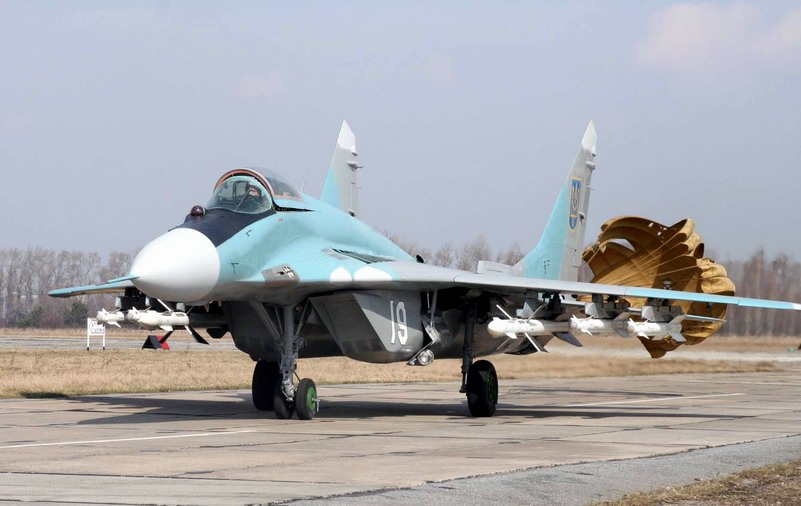 Ukrainian MiG-29.